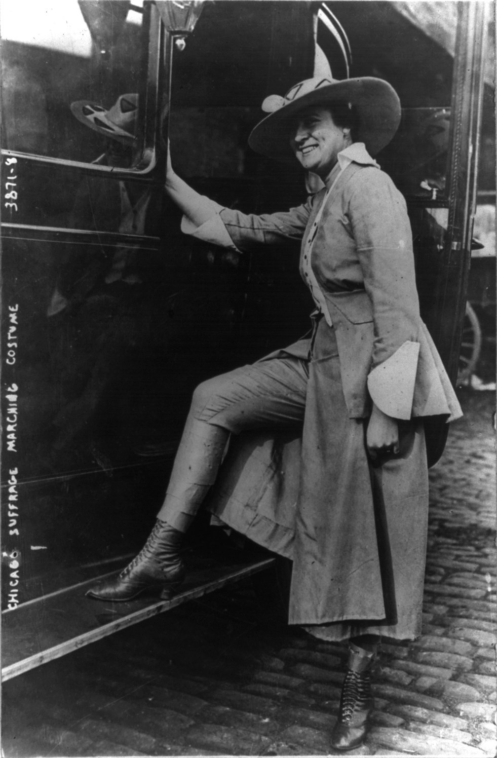 Woman showing a marching costume, Chicago suffrage parade, June 6, 1916 (tight-fitting trousers under skirts, which preserved technical modesty, but would have been considered unacceptably masculinized by many at the time; see also Category:Bicycle dresses). Title: Woman modelling marching costume for Chicago's suffrage parade, June 6, 1916 Date Created/Published: 1916 June 6. Medium: 1 photographic print. Reproduction Number: LC-USZ62-20184 (b&w film copy neg.) Rights Advisory: No known restrictions on reproduction. Call Number: LOT 11052-4 [item] [P&P]